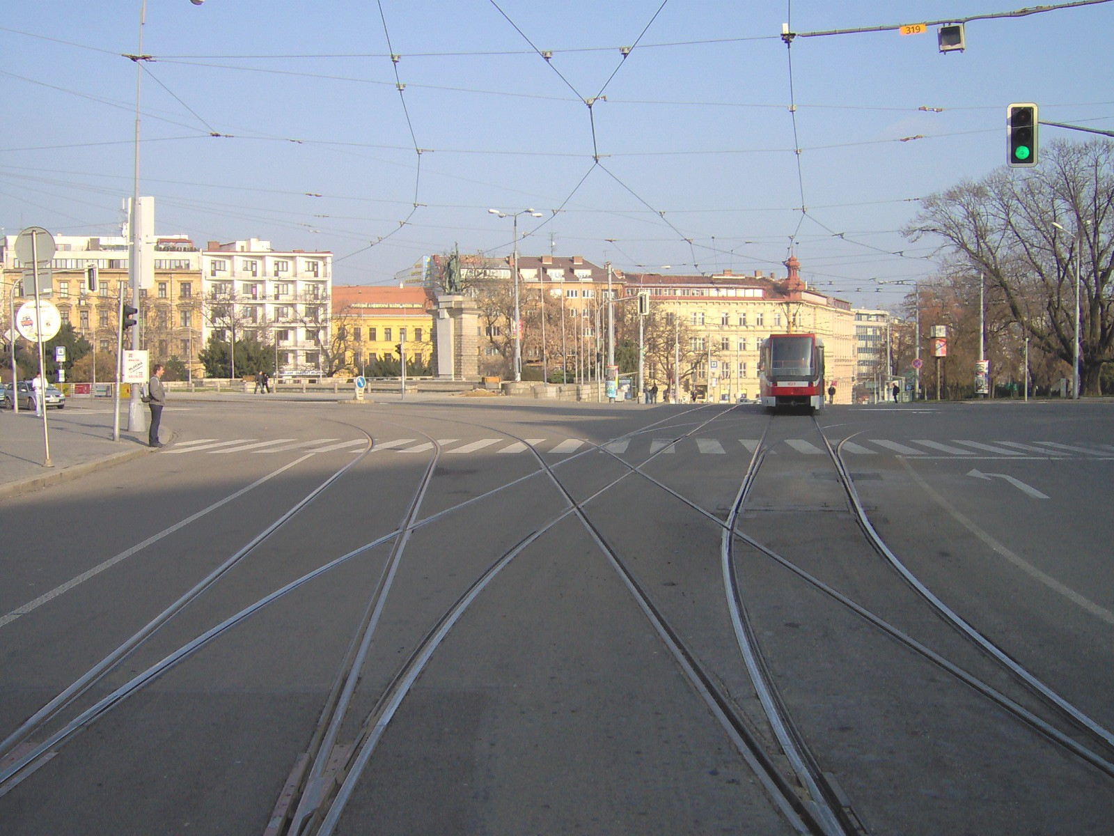 Tram track in Moravské náměstí, Brno, Czech Republic Česky: Tramvajová trať na Moravském náměstí, Brno